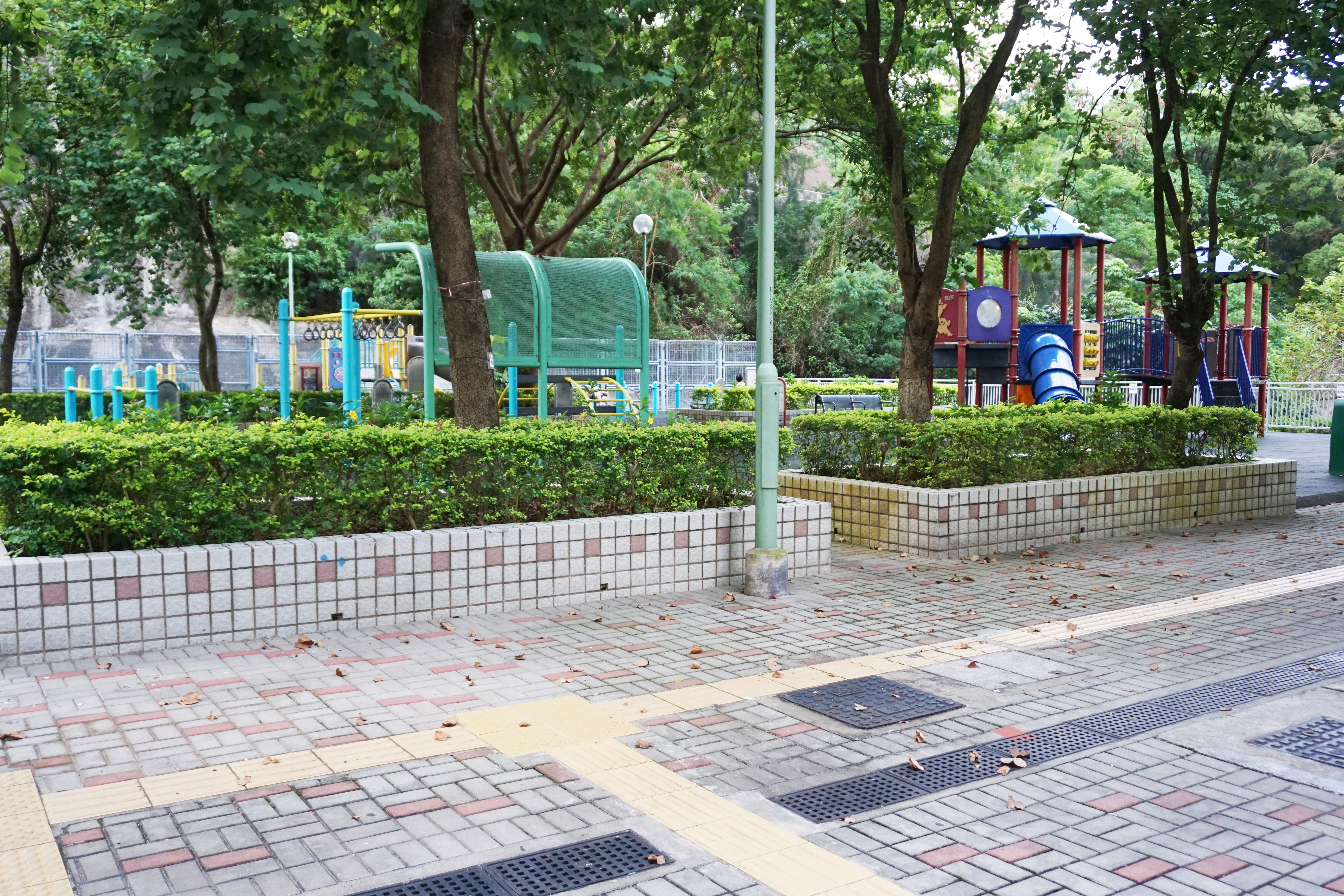 Lei Muk Shue Estate in Wo Yi Hop, Hong Kong.